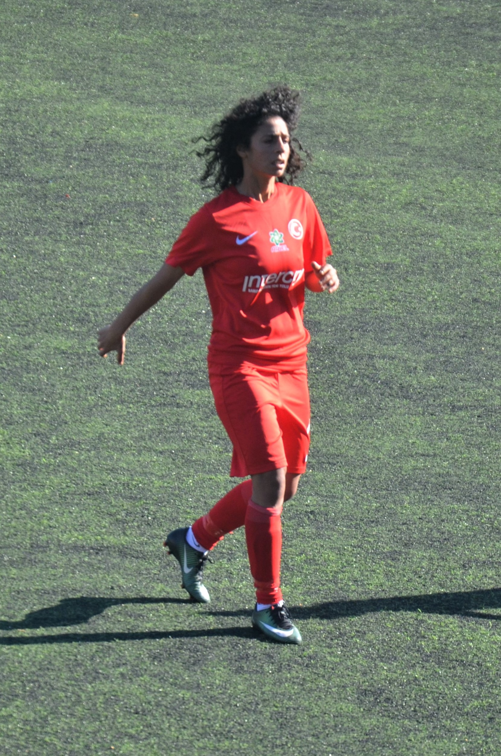 Salwa "Sally" Mansour Ismail Elmitwalli playing for Ataşehir Belediyespor in the 2018-19 Turkish Women's First Football League.